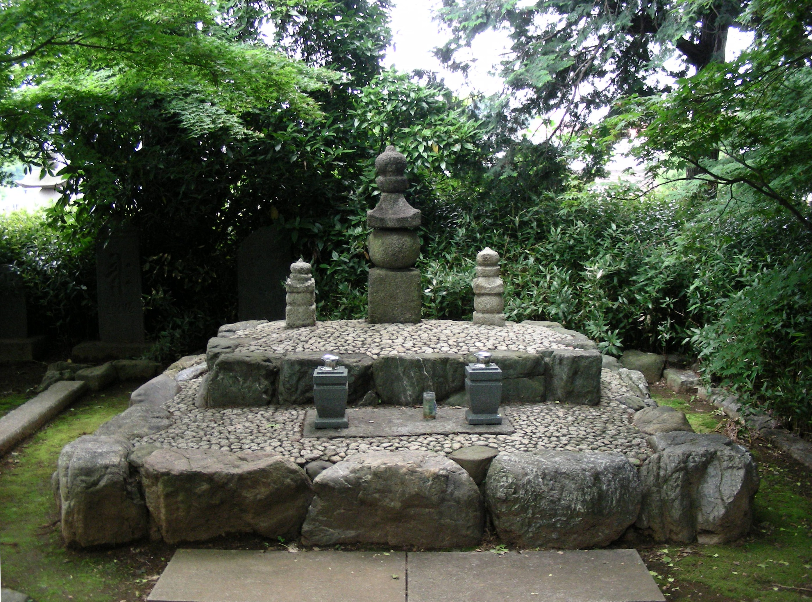 Grave of the warlord Kawagoe Shigeyori at the Yojuin temple in Kawagoe City, Saitama Prefecture, Japan